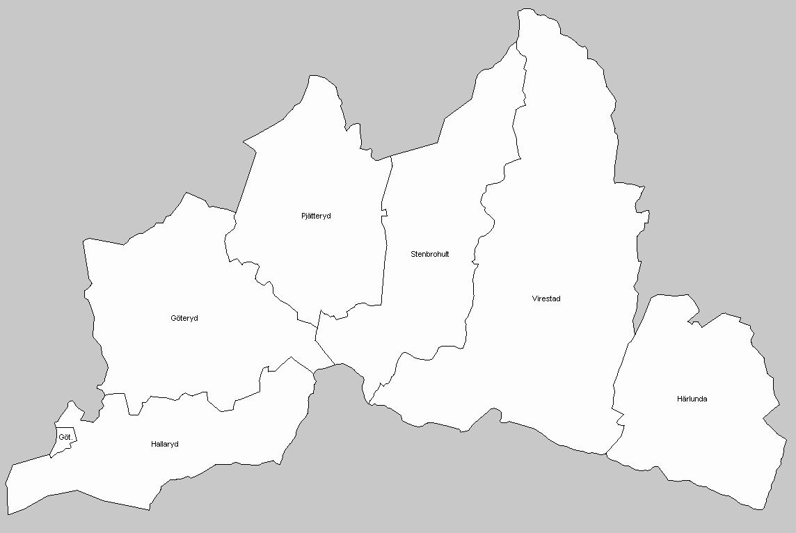 Parishes in Älmhult's municipality